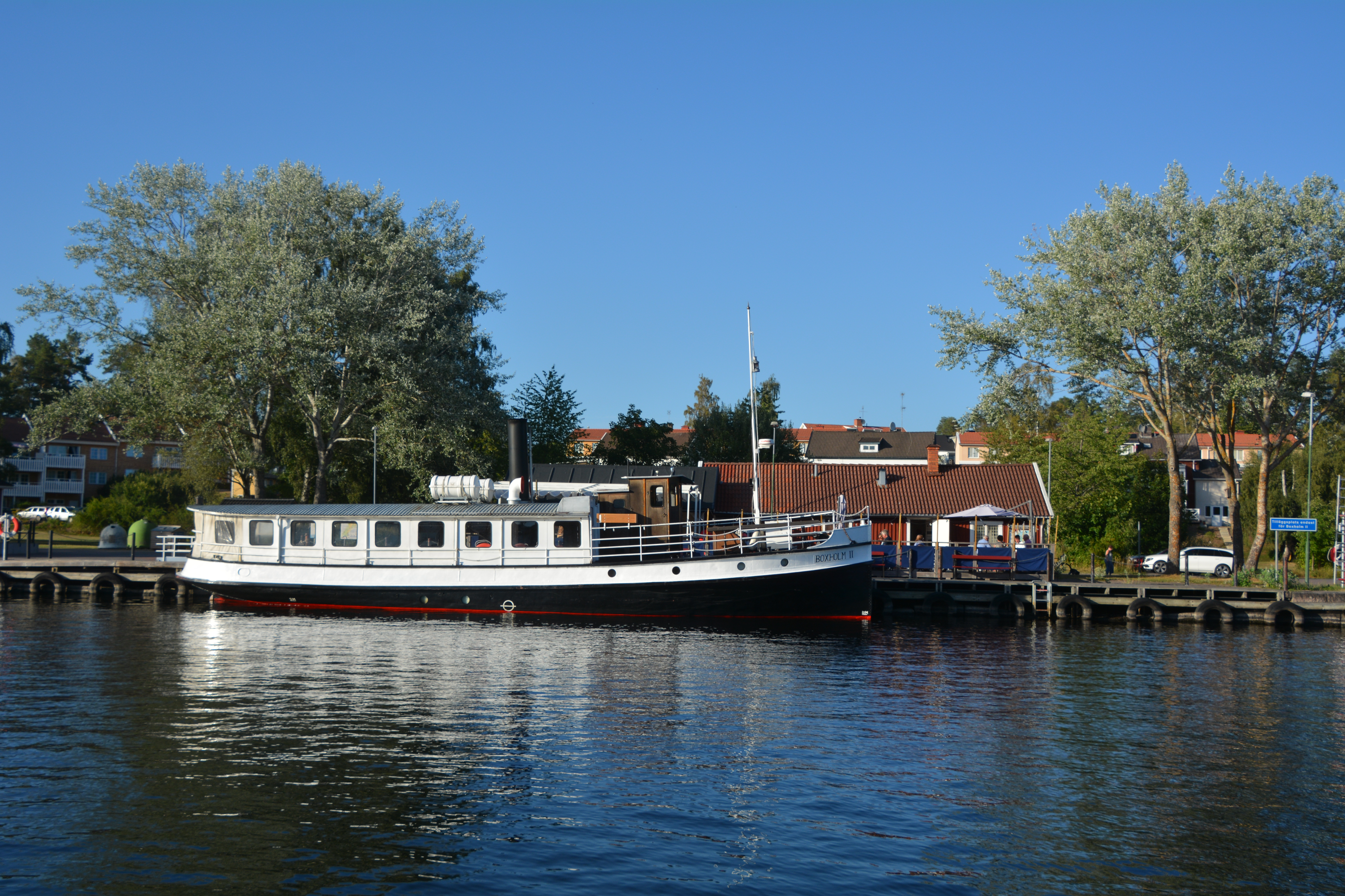 S/S Boxholm II, Tranås hamn